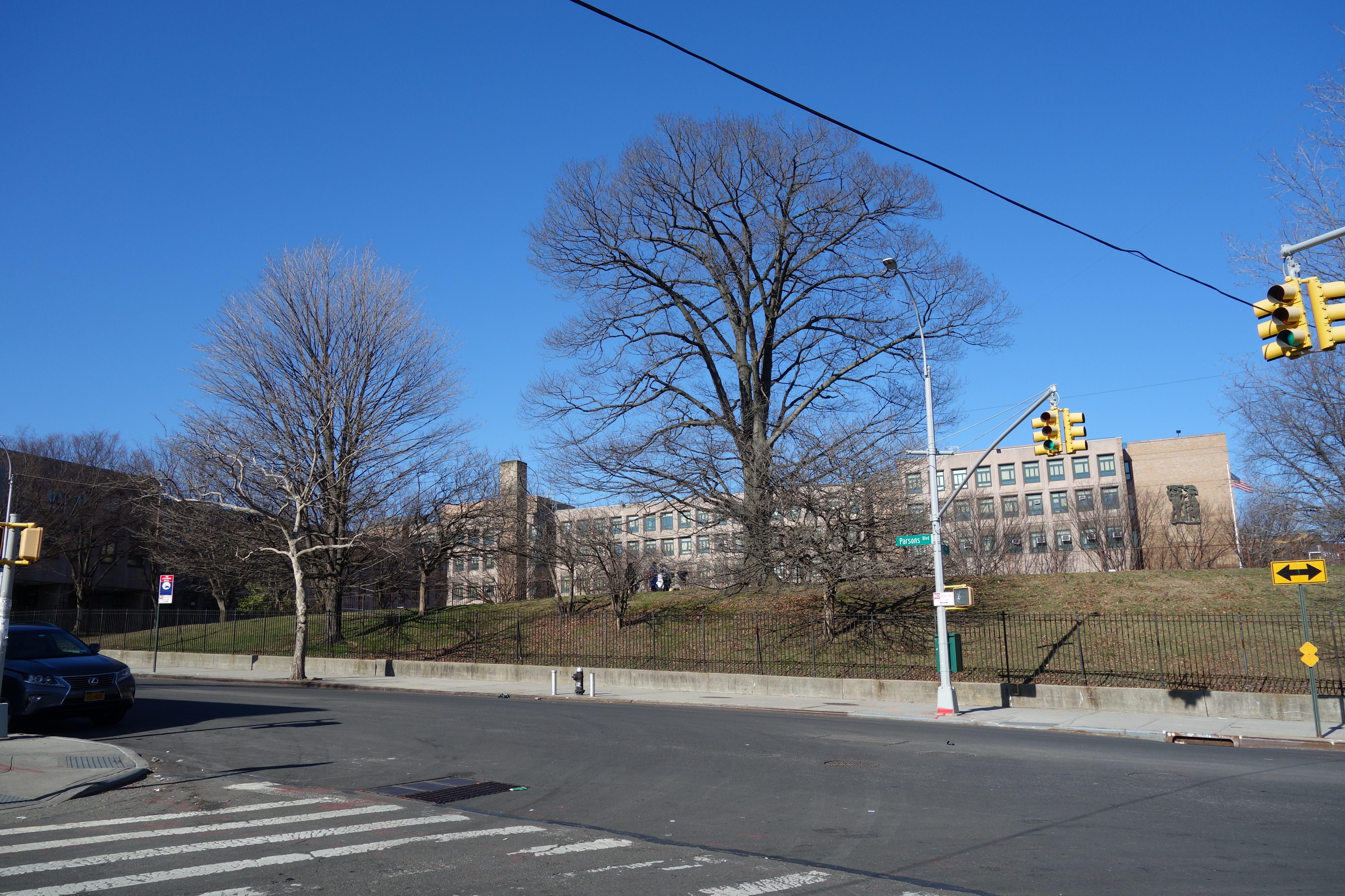 Hillcrest High School, at Parsons Boulevard and 87th Road / Highland Avenue north of Hillside Avenue in Jamaica / Jamaica Hills, Queens. The school is built on the rising hill caused by the terminal moraine in the center of Long Island, making pictures of the building very difficult.